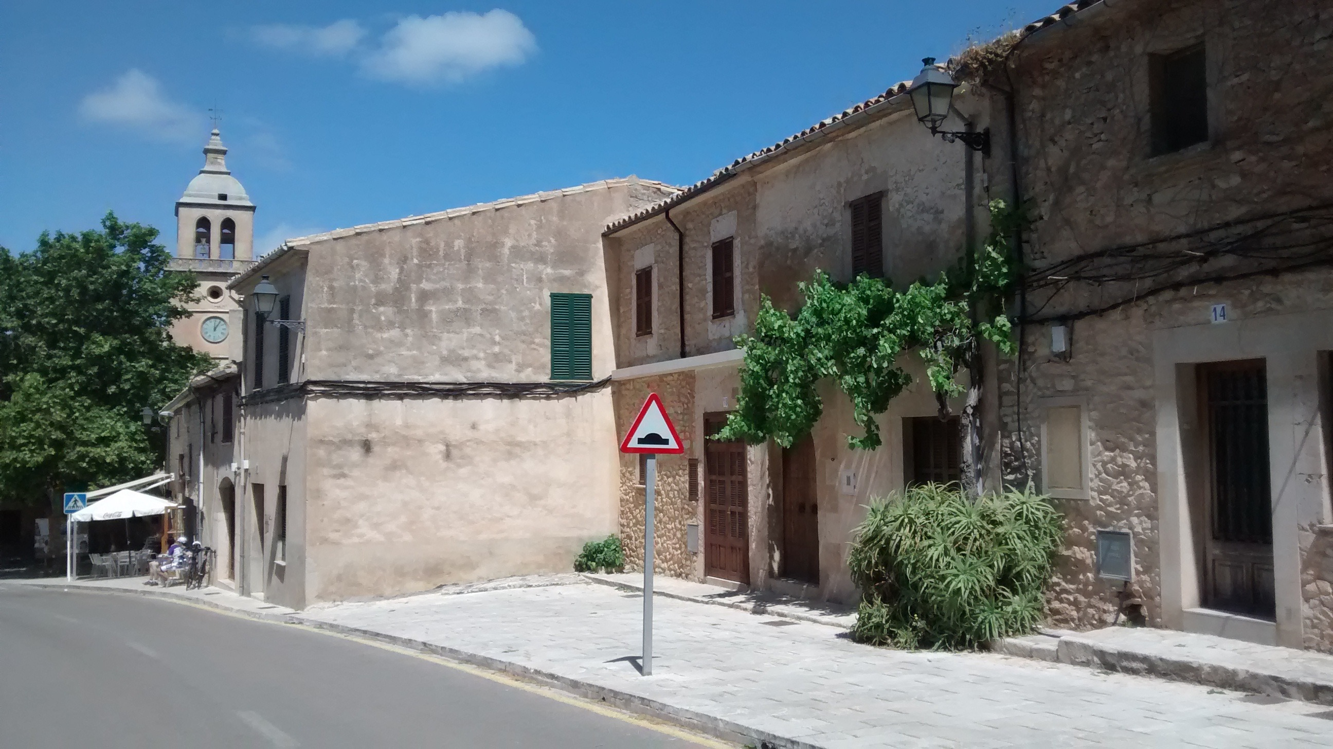 The town of Randa, Mallorca.